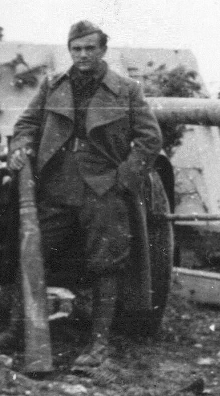 Stanko Parmać (Opuzen, 23. ožujka 1913. – Split, 3. ožujka 1982.) bio je učitelj, sudionik Narodnooslobodilačke borbe, kontraadmiral JRM-a i narodni heroj ...